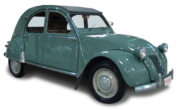 Citroën 2CV, year 1949